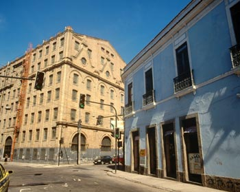 A picture of the Fluminense Mills, a factory located in downtown Rio de Janeiro